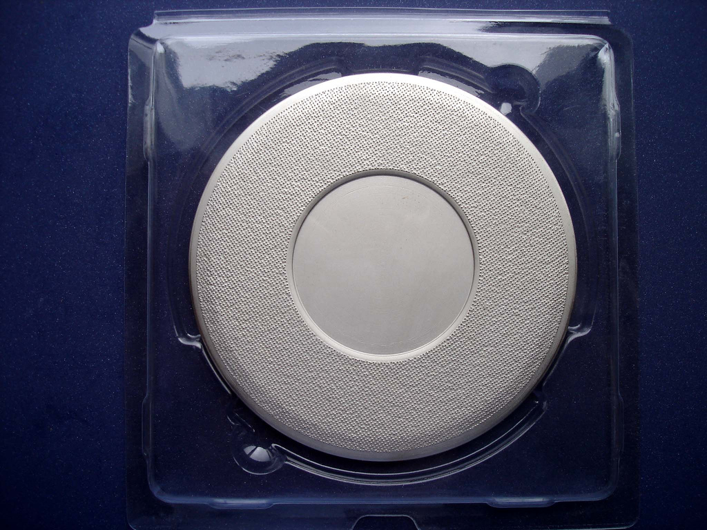 Pad conditioner (Chiaping model 108) for the chemical-mechanical polishing (CMP), which removes material from uneven topography on a wafer surface until a flat surface is created.